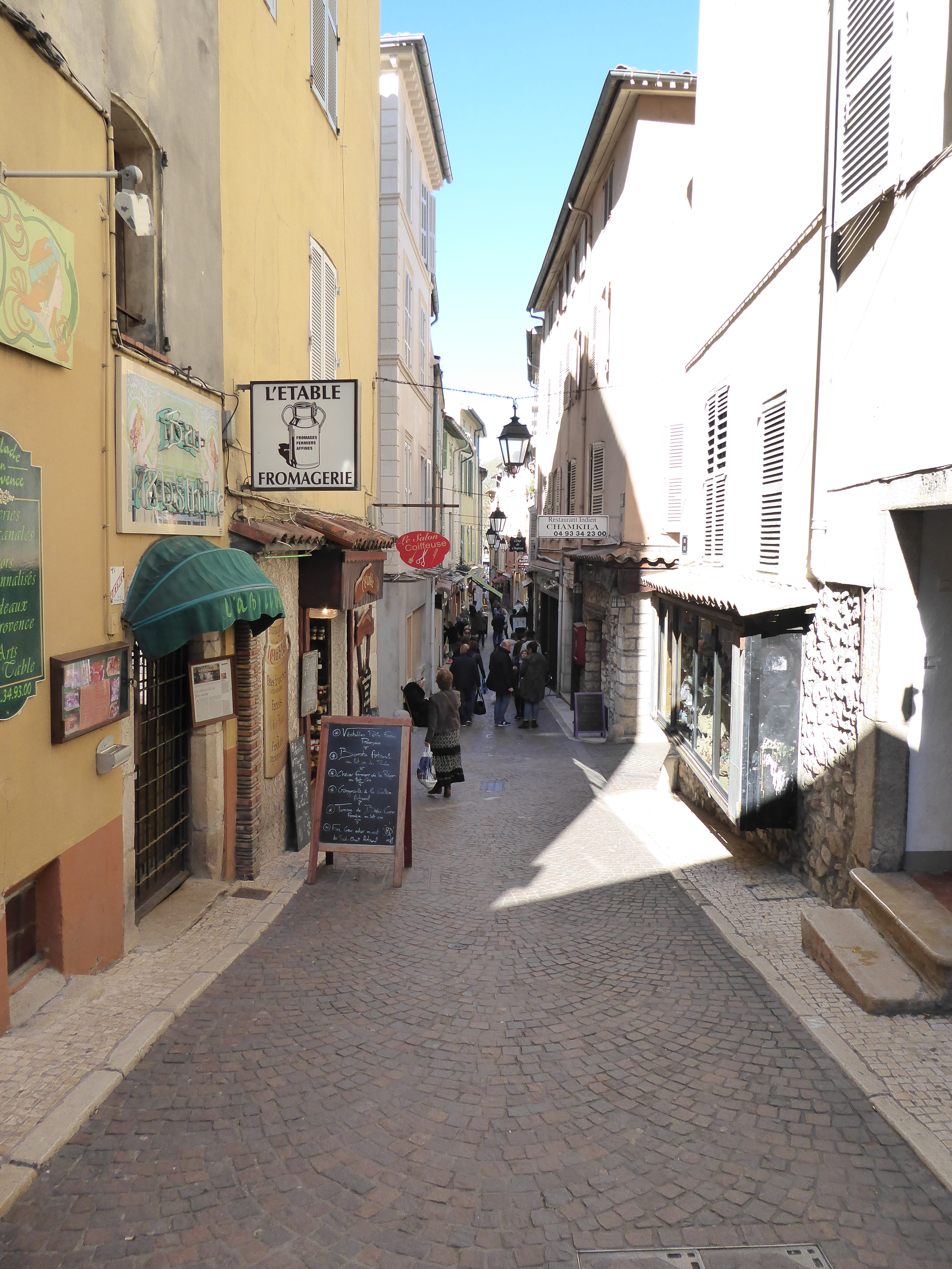 Rue Sade